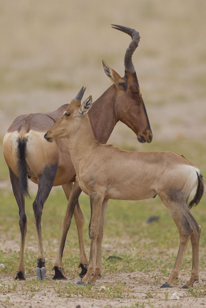 Red Hartbeest cow and calf. Kgalagadi National Park, South Africa